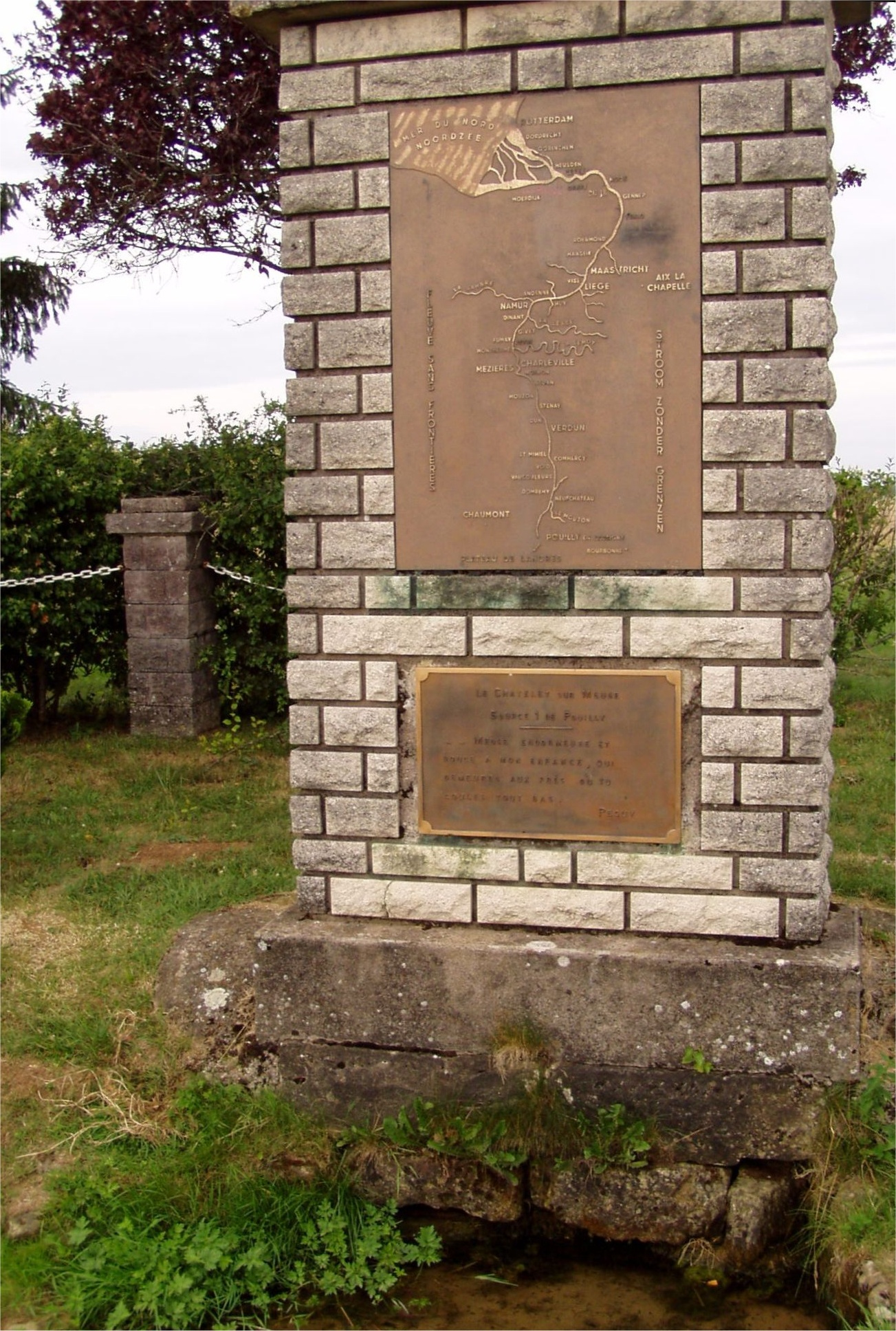 Monument at the source of the Meuse river at the village Pouilly-en-Bassigny, in commune Le Châtelet-sur-Meuse, in department Haute-Marne. Author: Julien Thurion (Belgavox) – July 2006